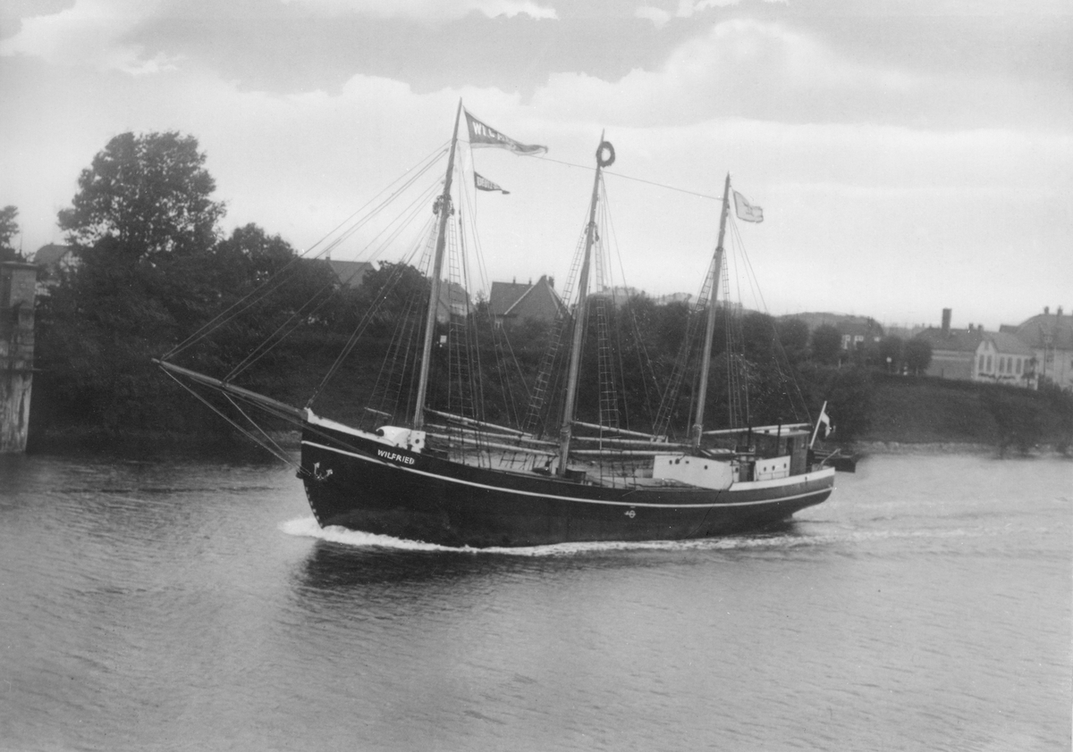 German coaster WILFRIED (IMO 5389578) built at Schiffswerft Nobiskrug, Rendsburg, in 1930 (№ 395, type: Ich Verdiene), collection of Boman, J. Robert (1926 - 2002) owned by Sjöhistoriska museet.